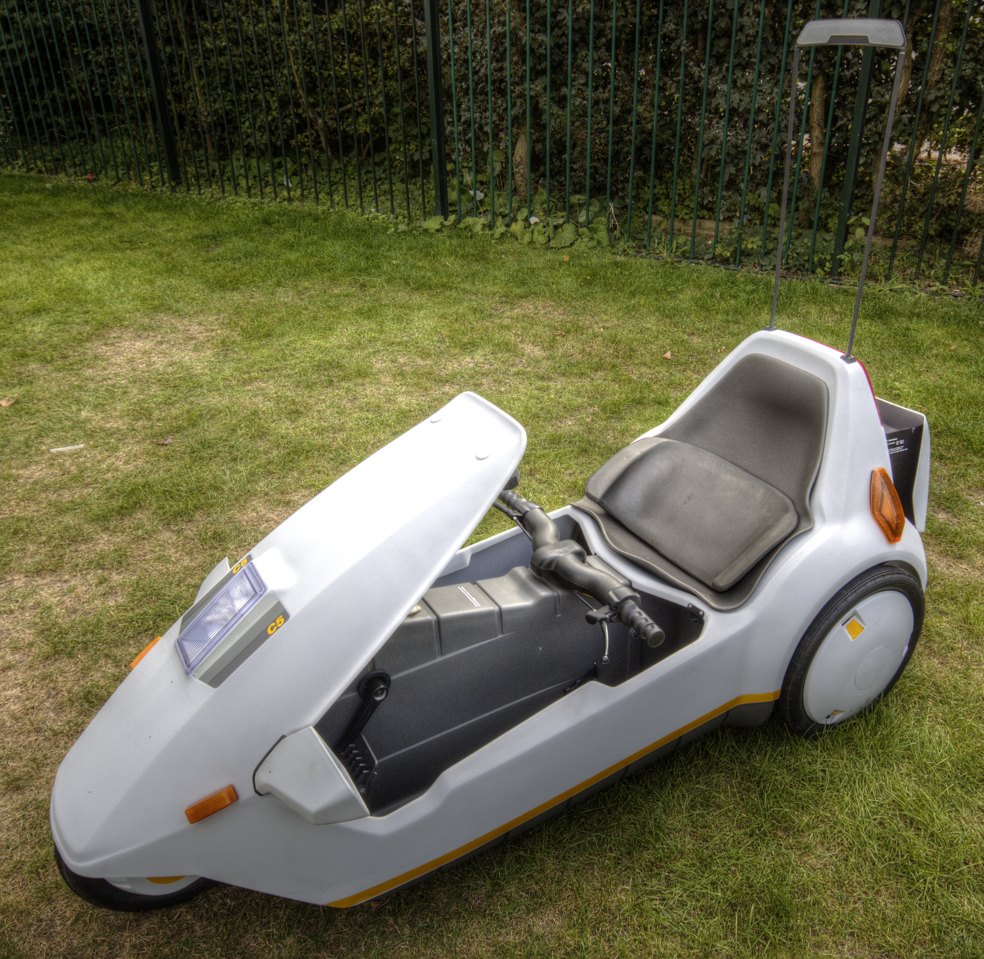 Sinclair C5 with a "high-vis mast" and other accessories